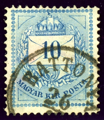 Kingdom of Hungary 10 kr stamp, issue 1874, cancelled at BATTONYA, Eastern Hungary.